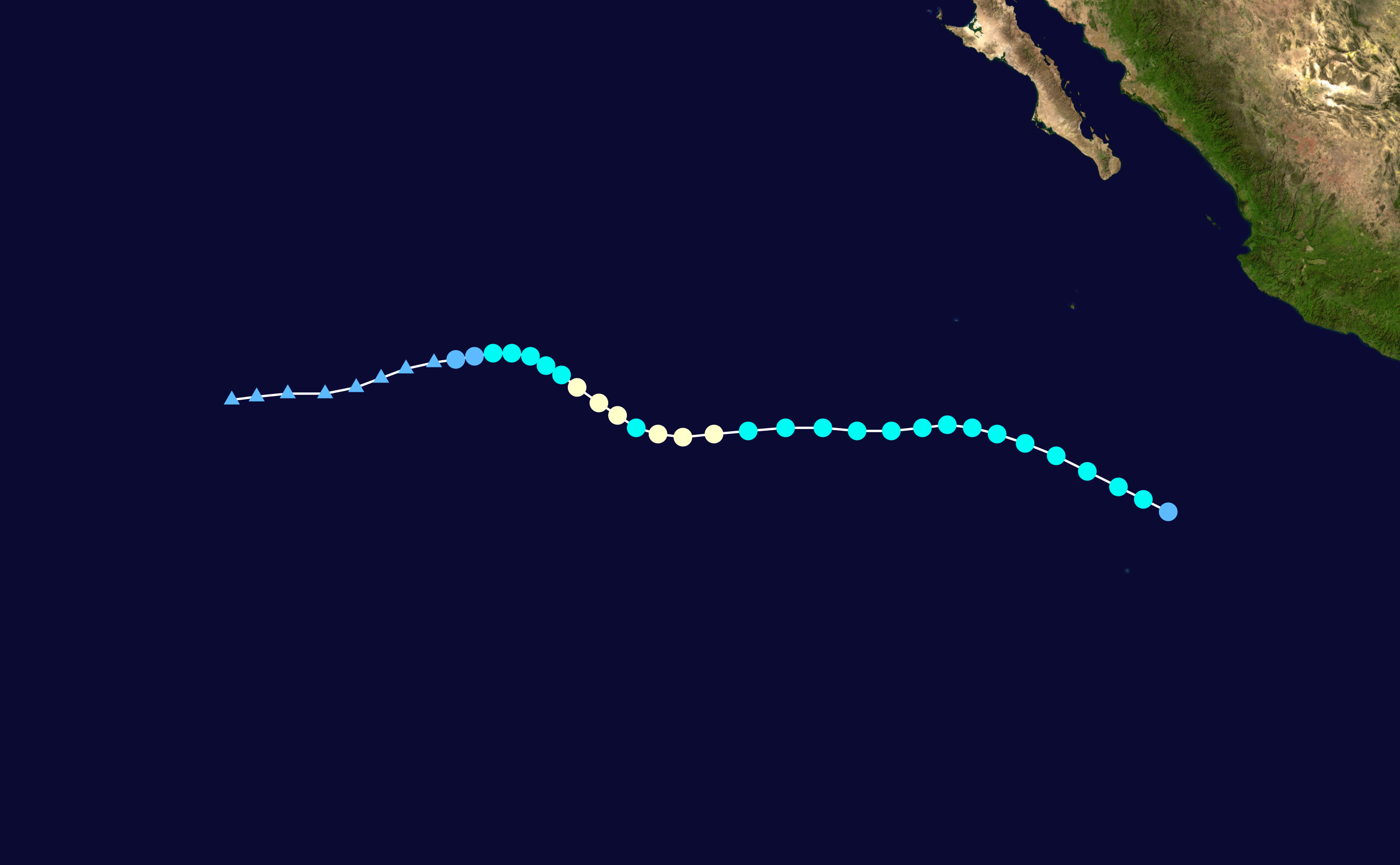 Track map of Hurricane Boris of the 2008 Pacific hurricane season. The points show the location of the storm at 6-hour intervals. The colour represents the storm's maximum sustained wind speeds as classified in the Saffir–Simpson scale (see below), and the shape of the data points represent the nature of the storm, according to the legend below. Saffir–Simpson scale Tropical depression≤38 mph≤62 km/h Category 3111–129 mph178–208 km/h Tropical storm39–73 mph63–118 km/h Category 4130–156 mph209–251 km/h Category 174–95 mph119–153 km/h Category 5≥157 mph≥252 km/h Category 296–110 mph154–177 km/h Unknown Storm type Tropical cyclone Subtropical cyclone Extratropical cyclone / Remnant low / Tropical disturbance / Monsoon depression